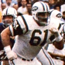 New York Jets' guard Bob Talamini pictured in an offensive play against the Baltimore Colts during Super Bowl III.